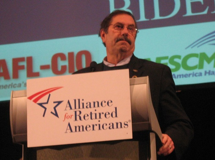 Leo Gerard at a Hillary for Obama rally in 2008.